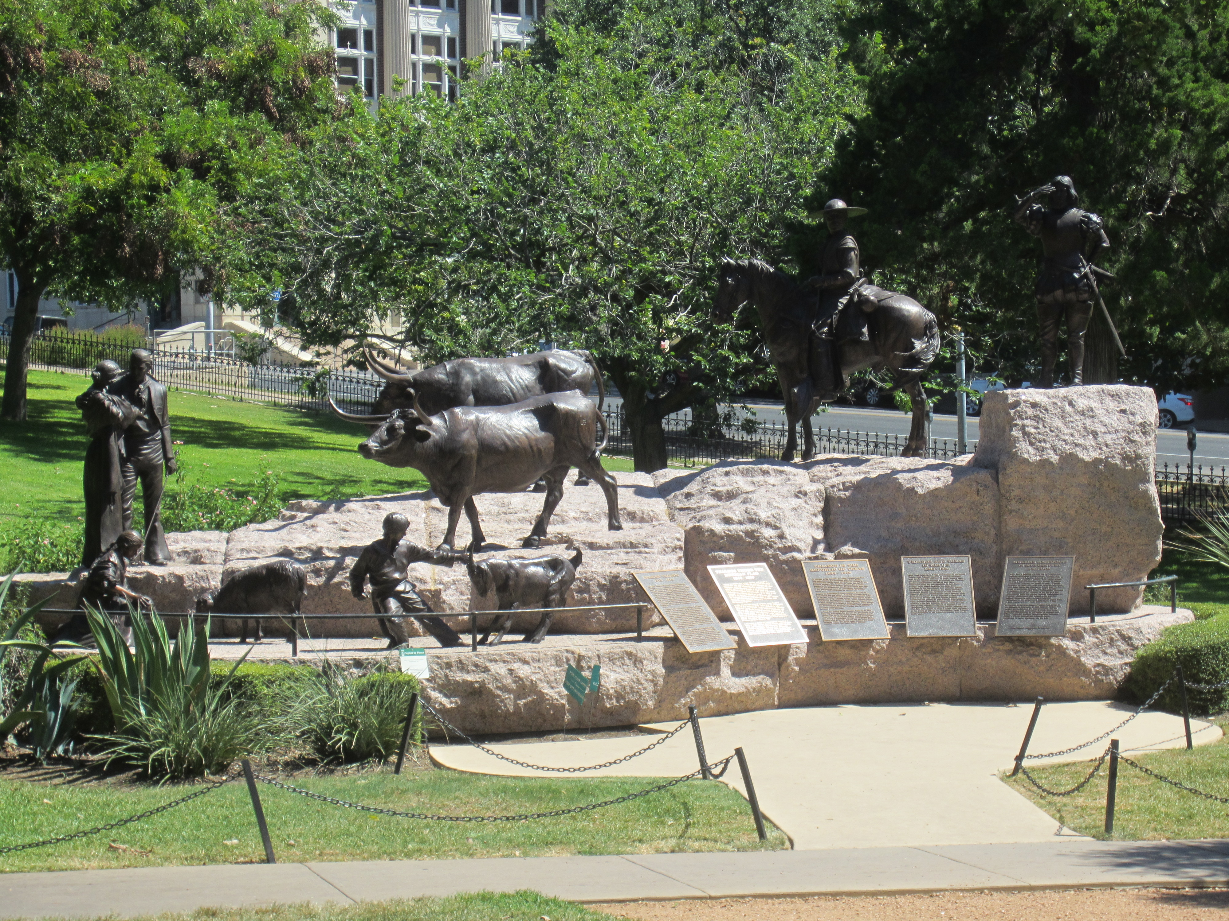 Austin, Texas (August 30, 2018)